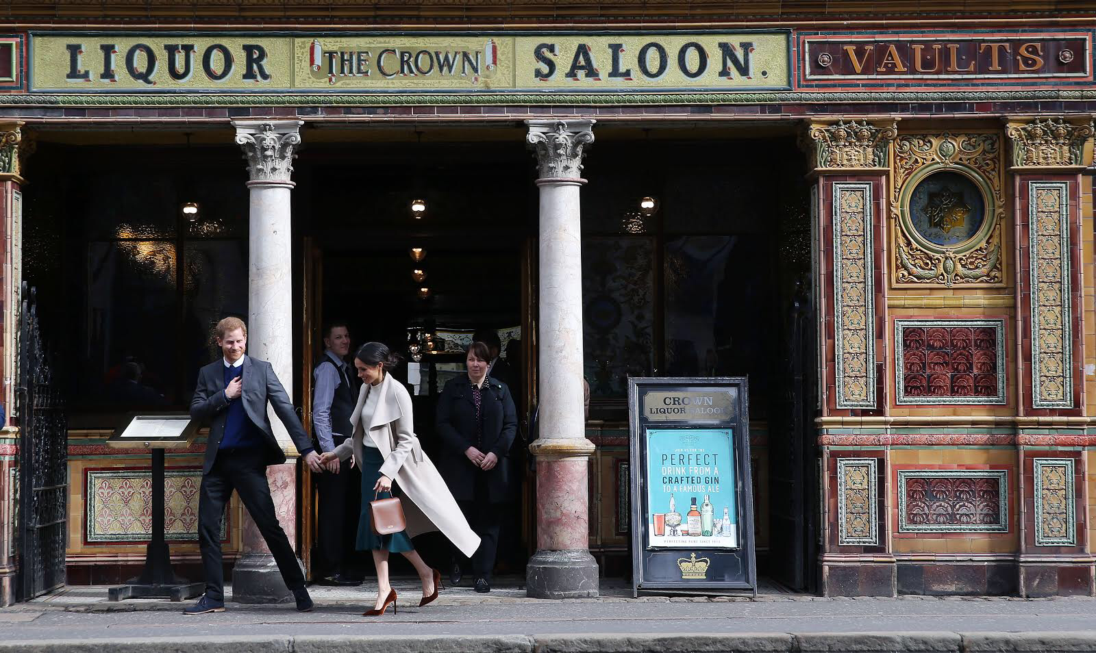 Prince Harry and Ms. Markle visit Belfast's Crown Liquor Saloon